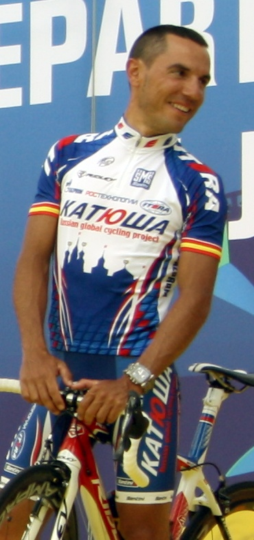 Joaquim Rodríguez at the team presentation of the 2010 Tour de France in Rotterdam